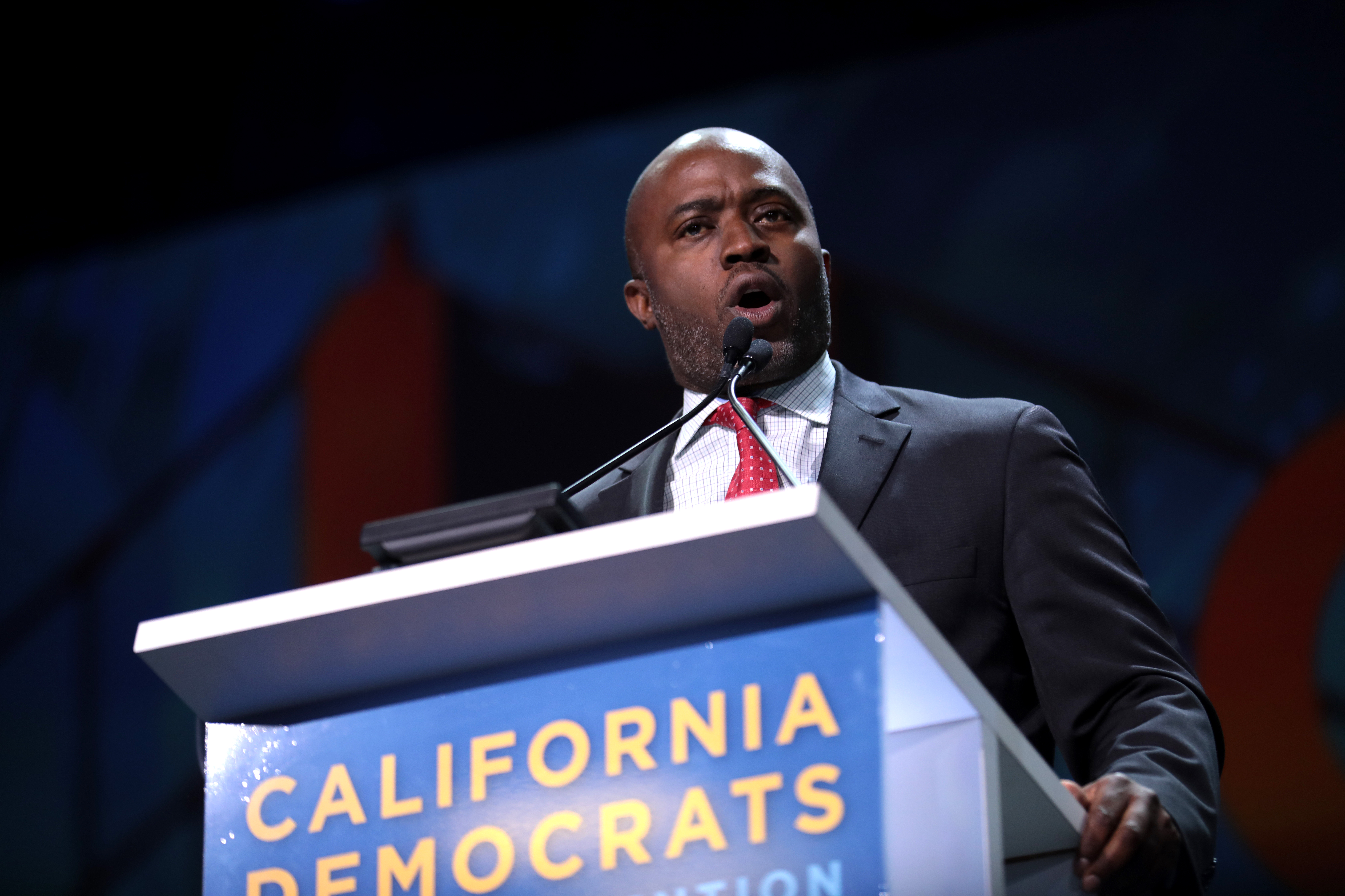 Superintendent of Public Instruction Tony Thurmond speaking with attendees at the 2019 California Democratic Party State Convention at the George R. Moscone Convention Center in San Francisco, California.